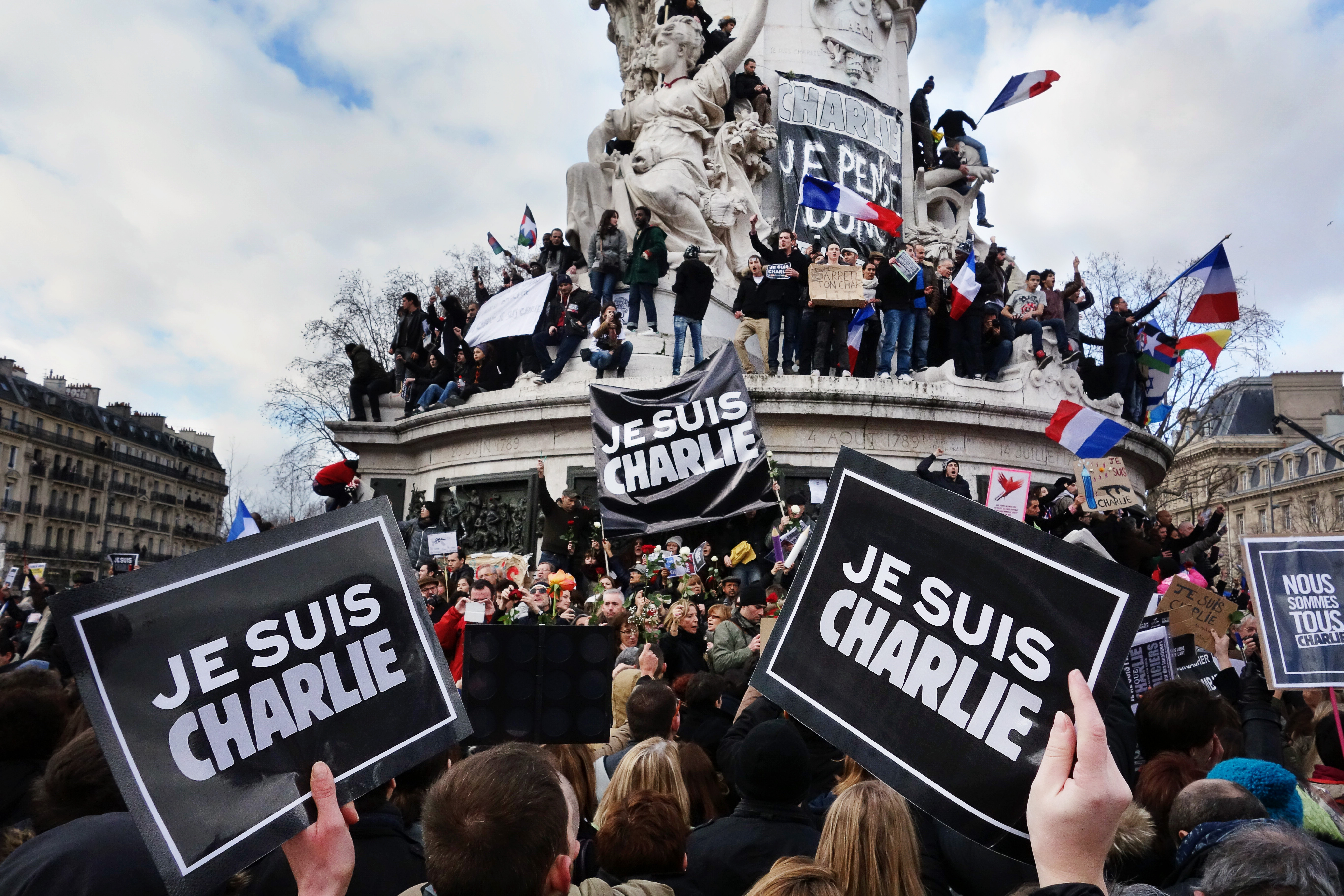 Paris rally in support of the victims of the 2015 Charlie Hebdo shooting, 11 January 2015. Place de la Republique.